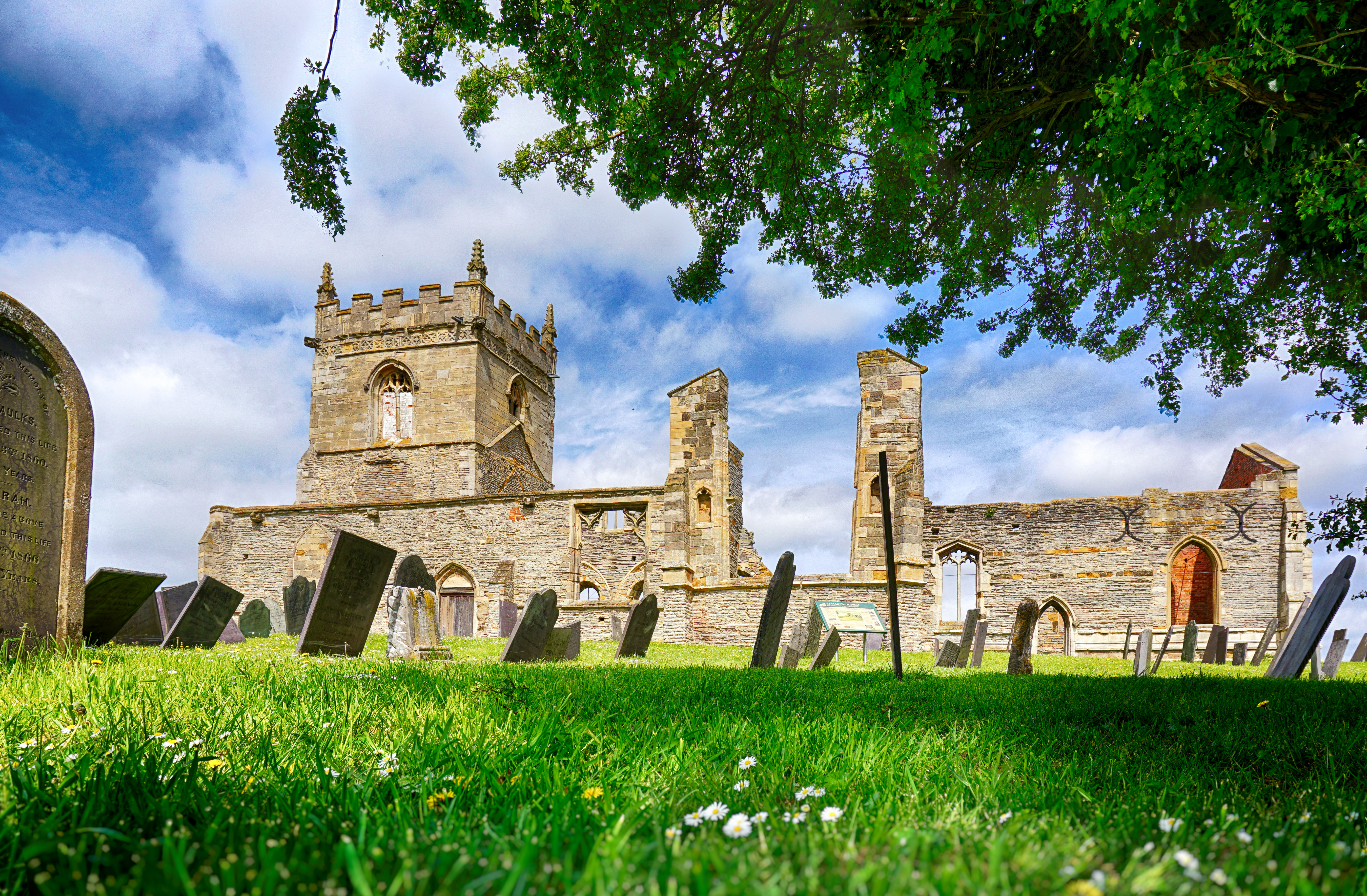 St. Mary's Church, Colston Bassett, South-East Nottinghamshire.